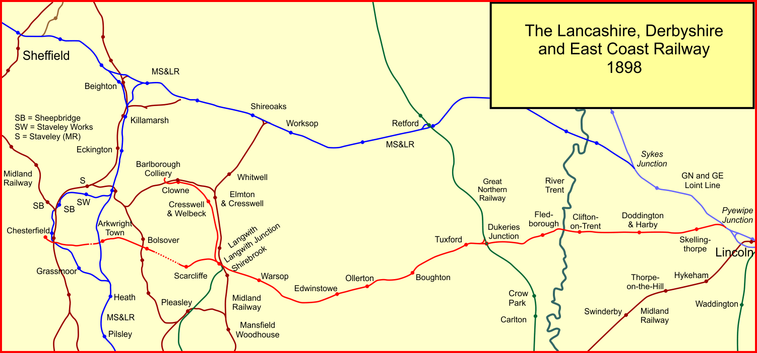 System map of the Lancashire, Derbyshire & East Coast Railway, England, in 1898